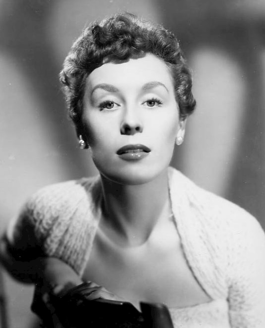 Photo of vocalist Jerri Winters. She worked with Stan Kenton for a short period of time, and with other bands from the 1950s through early 1960s. Her last album was produced in 1962 and she has simply disappeared from the music scene.